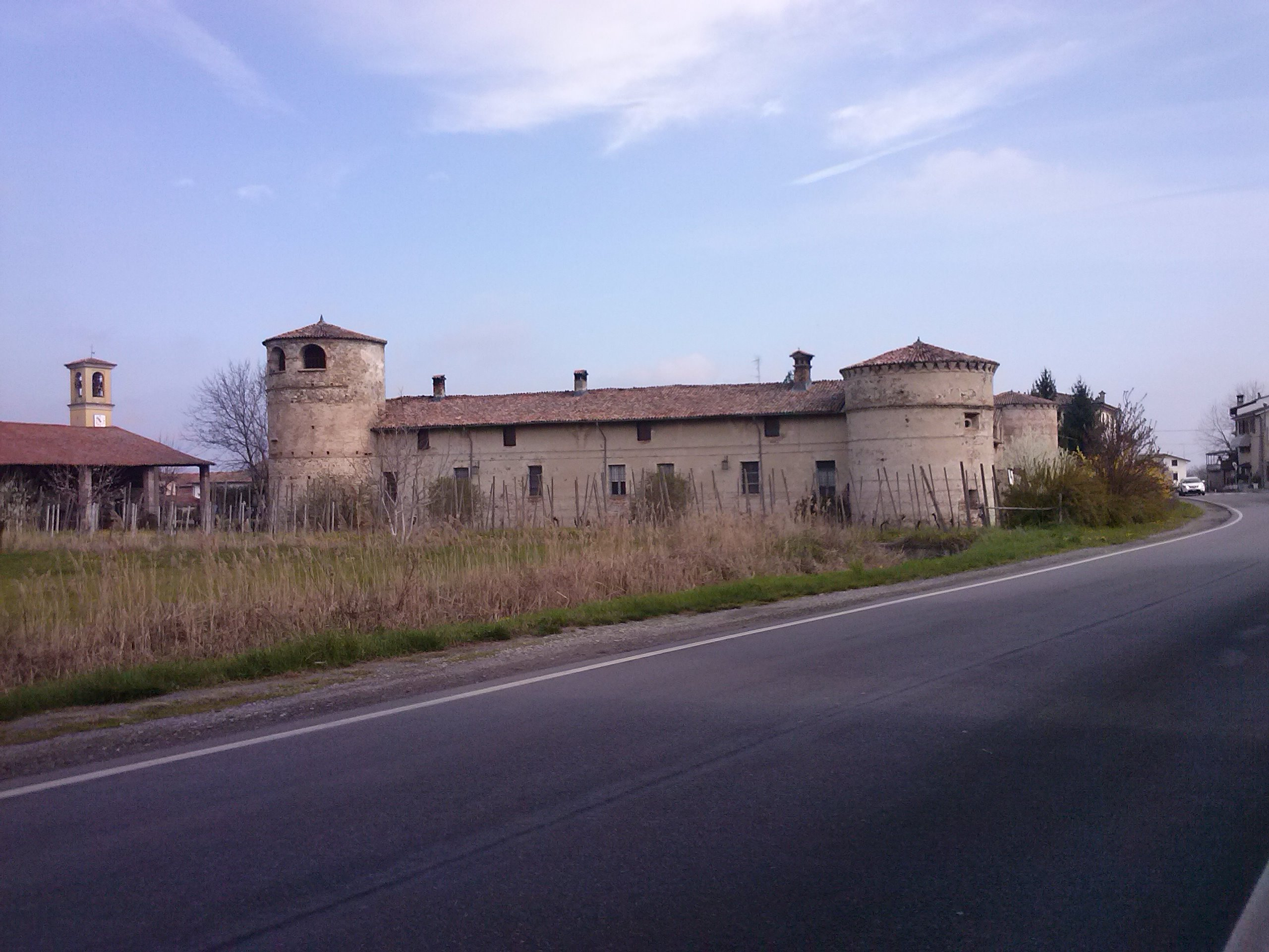 Castle of Folignano, municipality of Ponte dell'Olio (Piacenza, Italy)